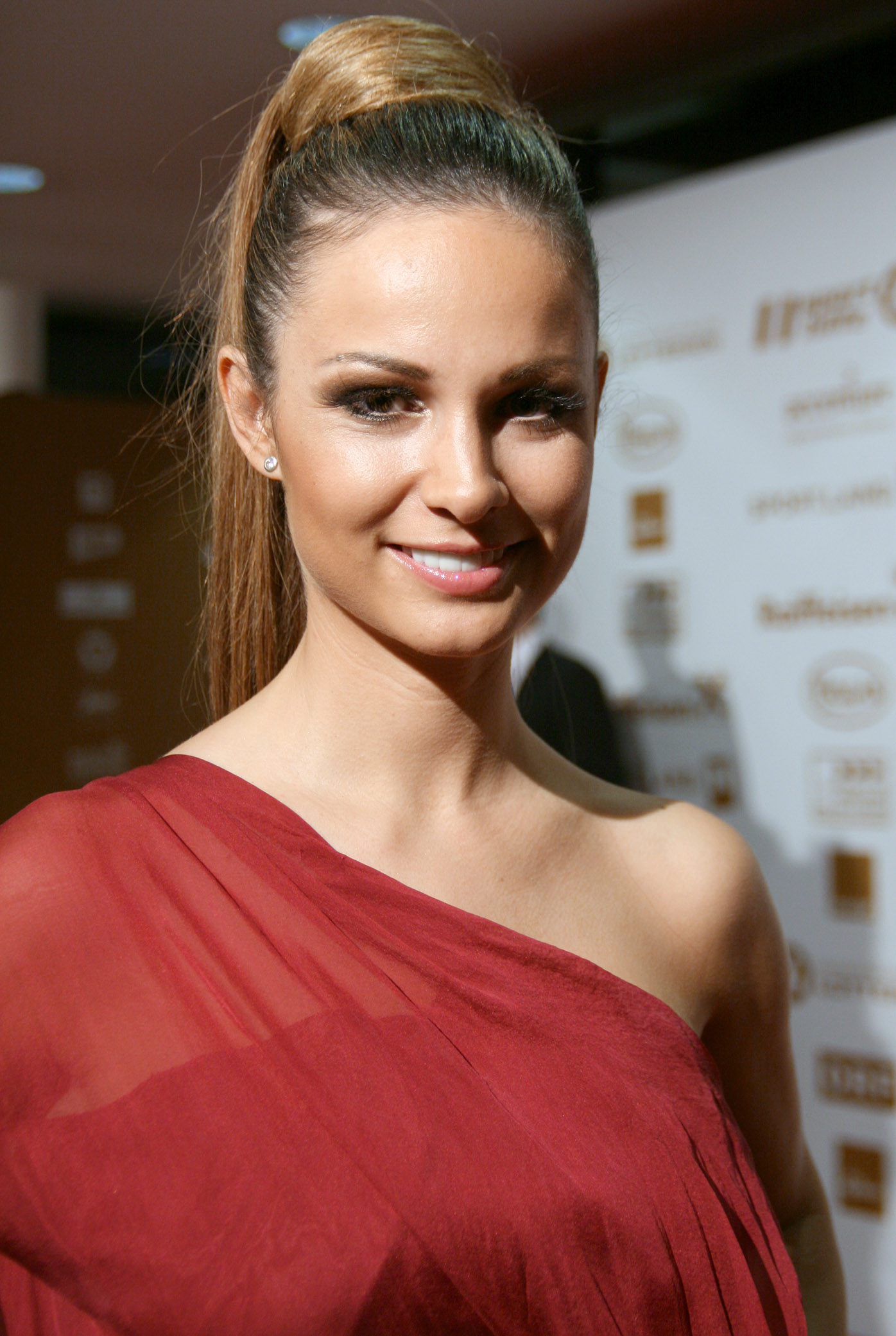 Silvia Hackl (Miss Austria 2004) at the presentation of the Austrian Sportspersonalities of the Year 2011 (Eventhotel Pyramide in Vösendorf, Lower Austria).